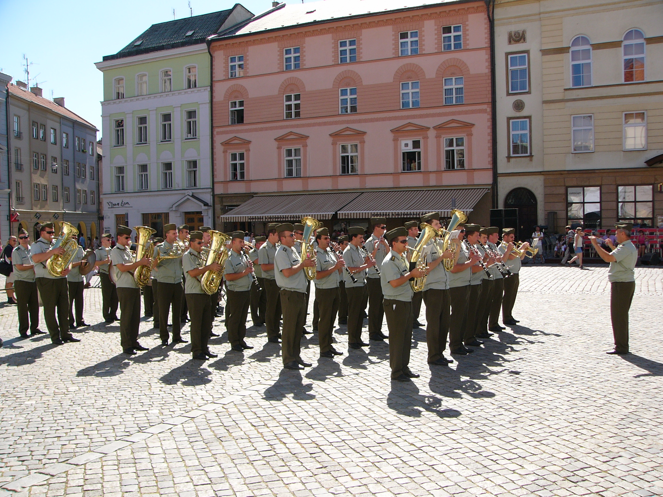 Military band Olomouc.